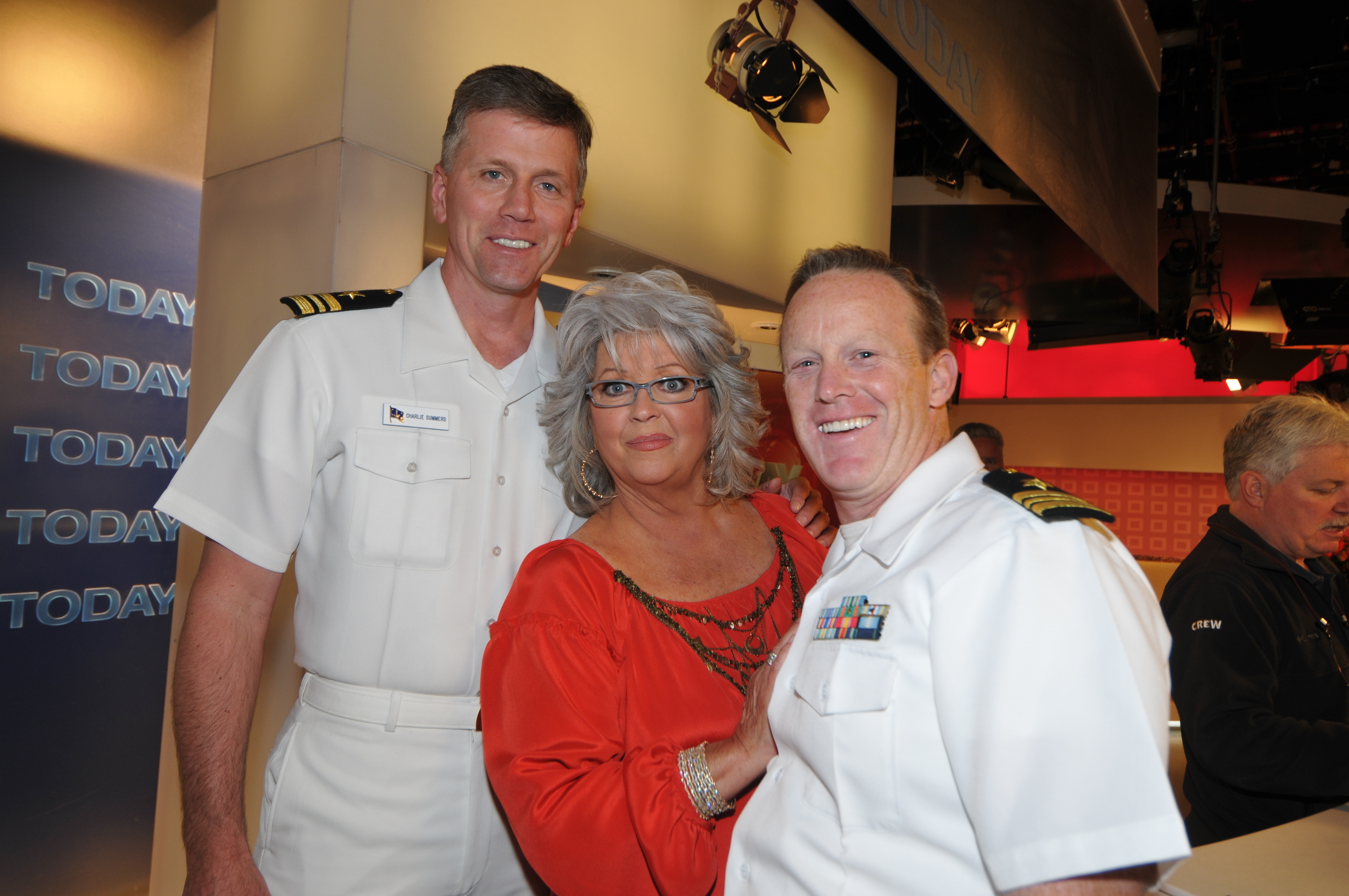 090521-N-DG679-144 .NEW YORK (May 21, 2009) Lt. Cmdr. Charlie Summers and Lt. Cmdr. John Spicer were joined by the reigning queen of the Food Network and best-selling cookbook author Paula Deen during their visit to the Today show as part of the Fleet Week events after her food demonstration. Approximately 3,000 Sailors, Marines and Coast Guardsmen will participate in the 22nd commemoration of Fleet Week New York City 2009. This event will provide the citizens of New York City and the surrounding tri-state area an opportunity to meet service members and also the latest capabilities of today's maritime services. (U.S. Navy photo by Mass Communication Specialist 1st Class Toiete Jackson/Released)....